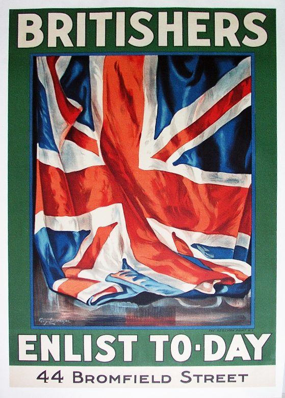 A World War I American recruitment poster, targetting those of British ancestry. (See [1]). Based on a 1915 British original [2] [Which is a long-expired Crown Copyright])